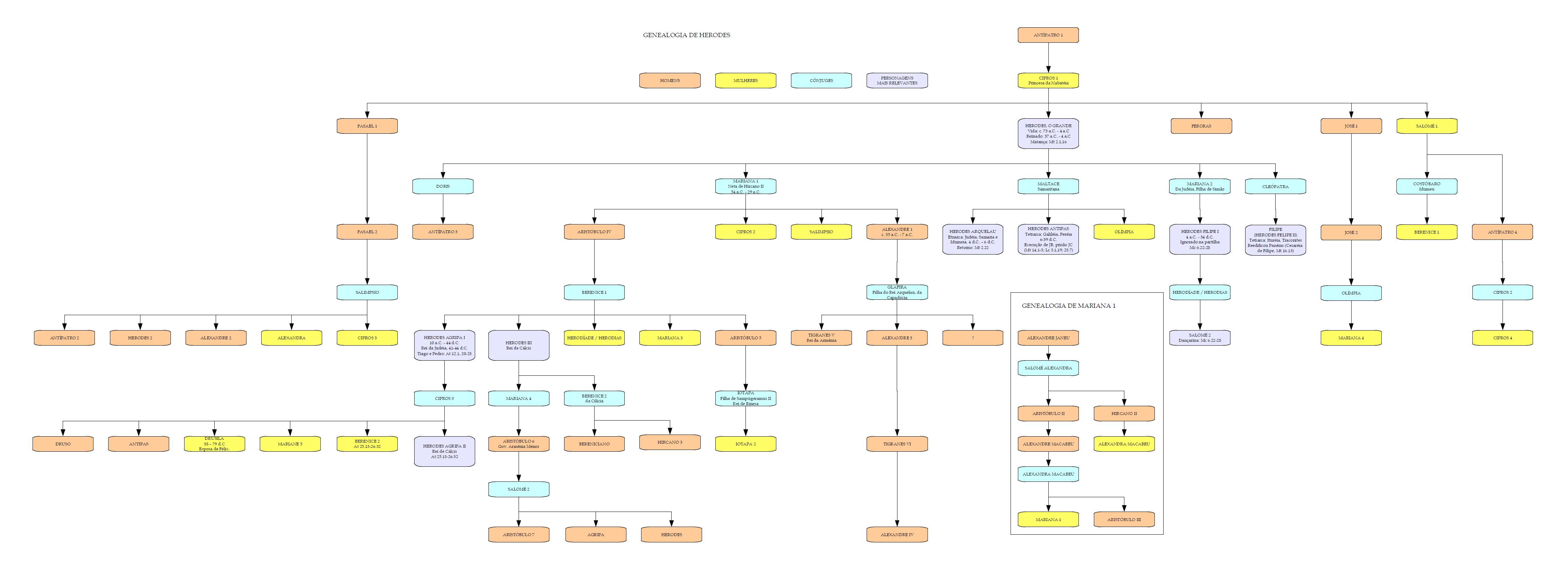 Genealogia de Herodes